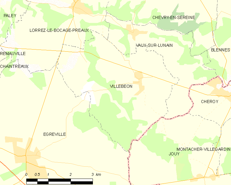 Map of French municipality Villebéon